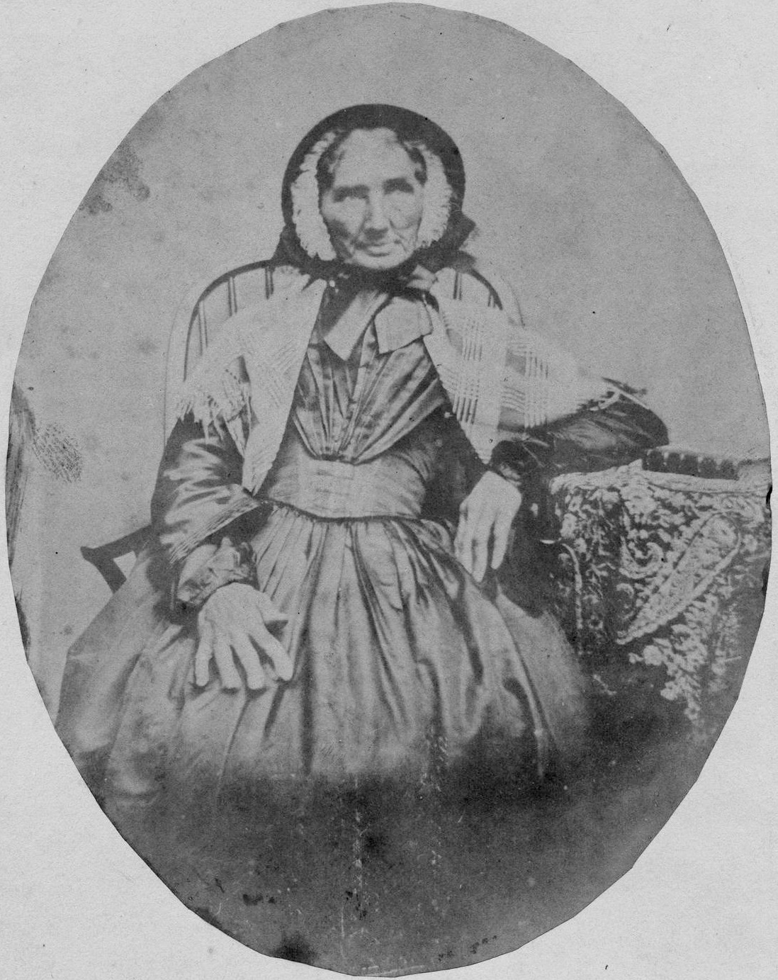 Nellie Brennan, first Matron of the Isle of Man's Hospital and Dispensary, and heroine of the cholera outbreaks of 1832 & 1833.